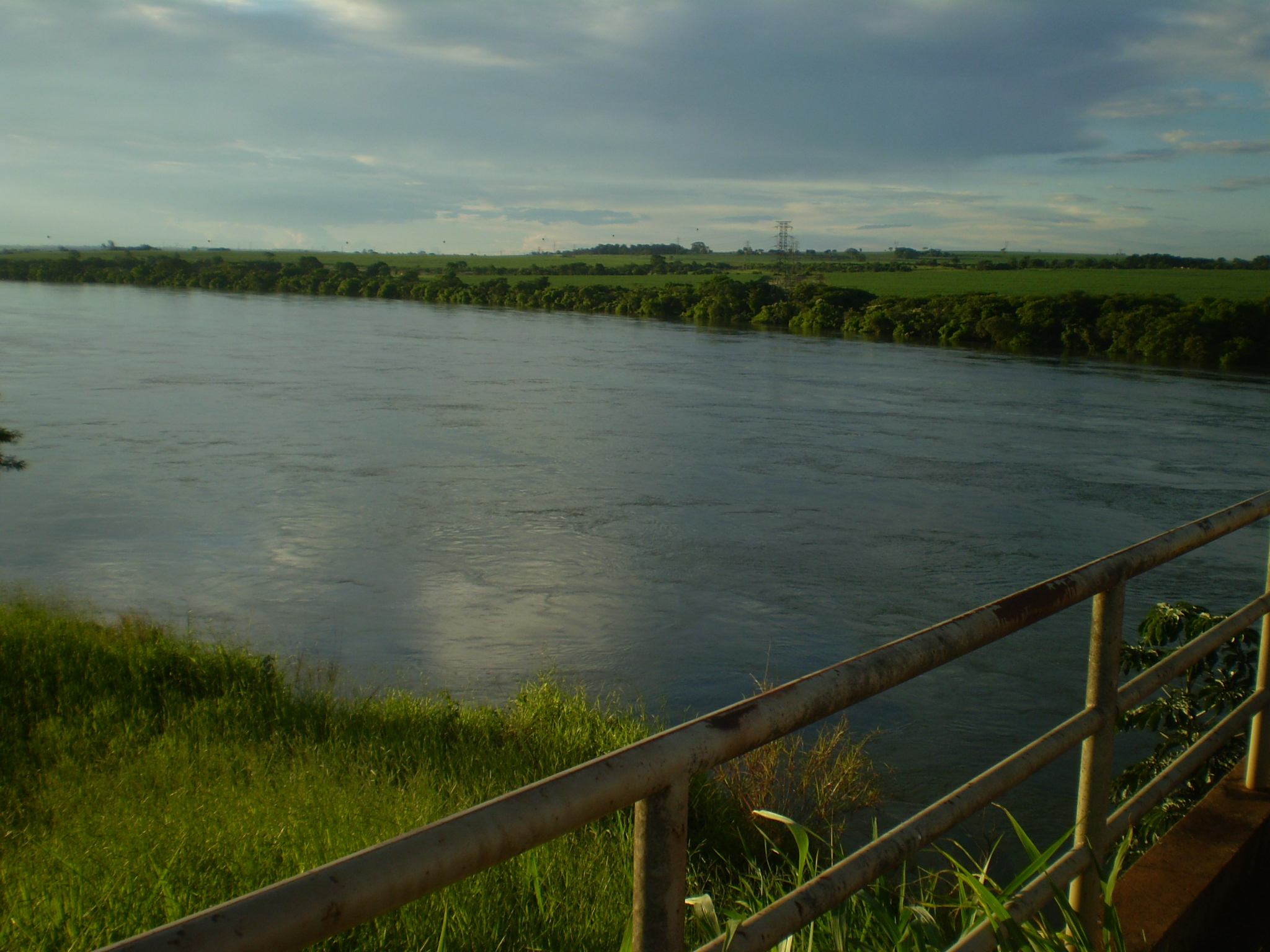 The Rio Grande in the São Paulo/Minas Gerais border in Brazil. Photo taken at the bridge at the end of the Anhanguera Highway.